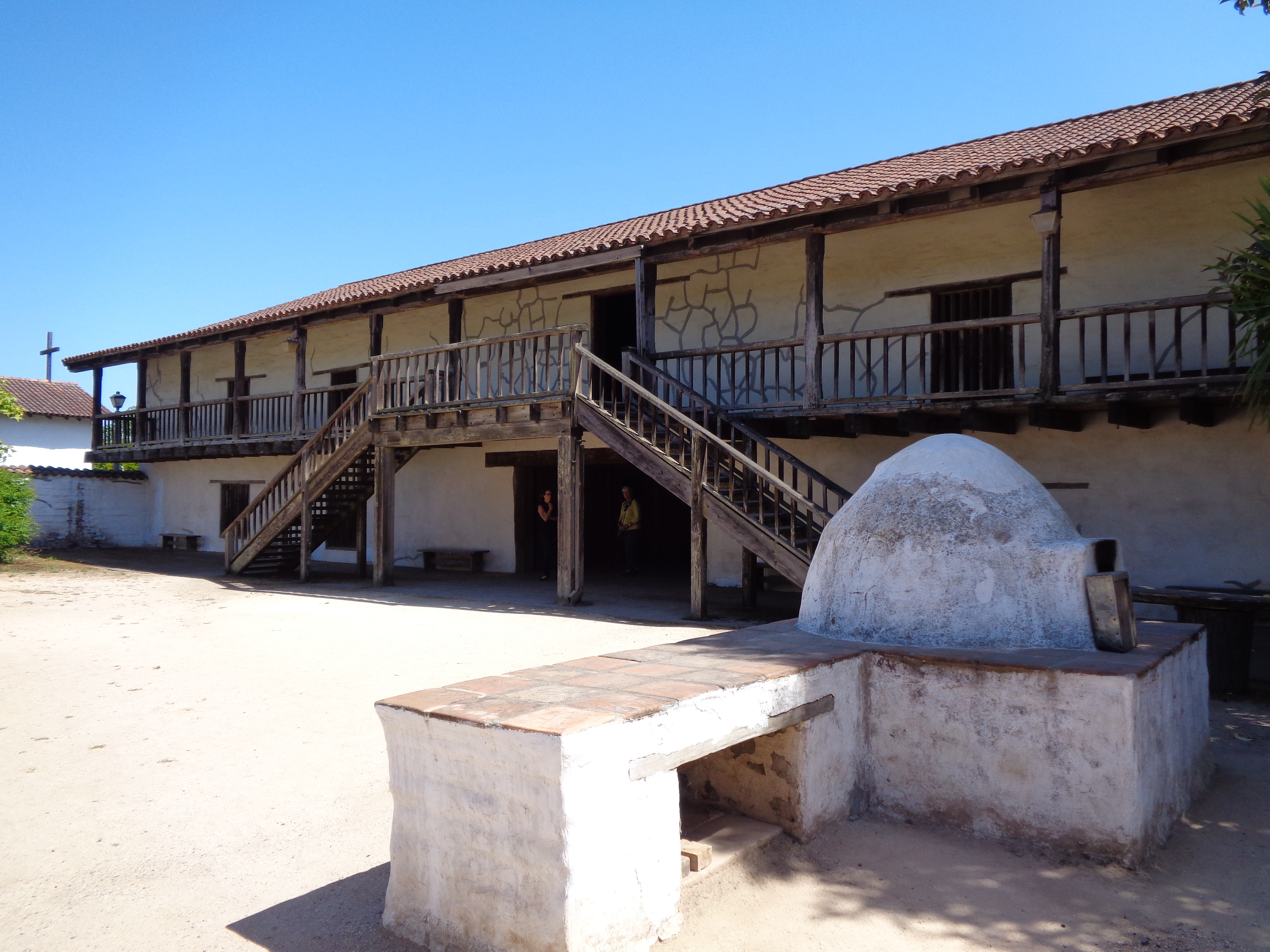 A cooking furnace preserved in the backyard.